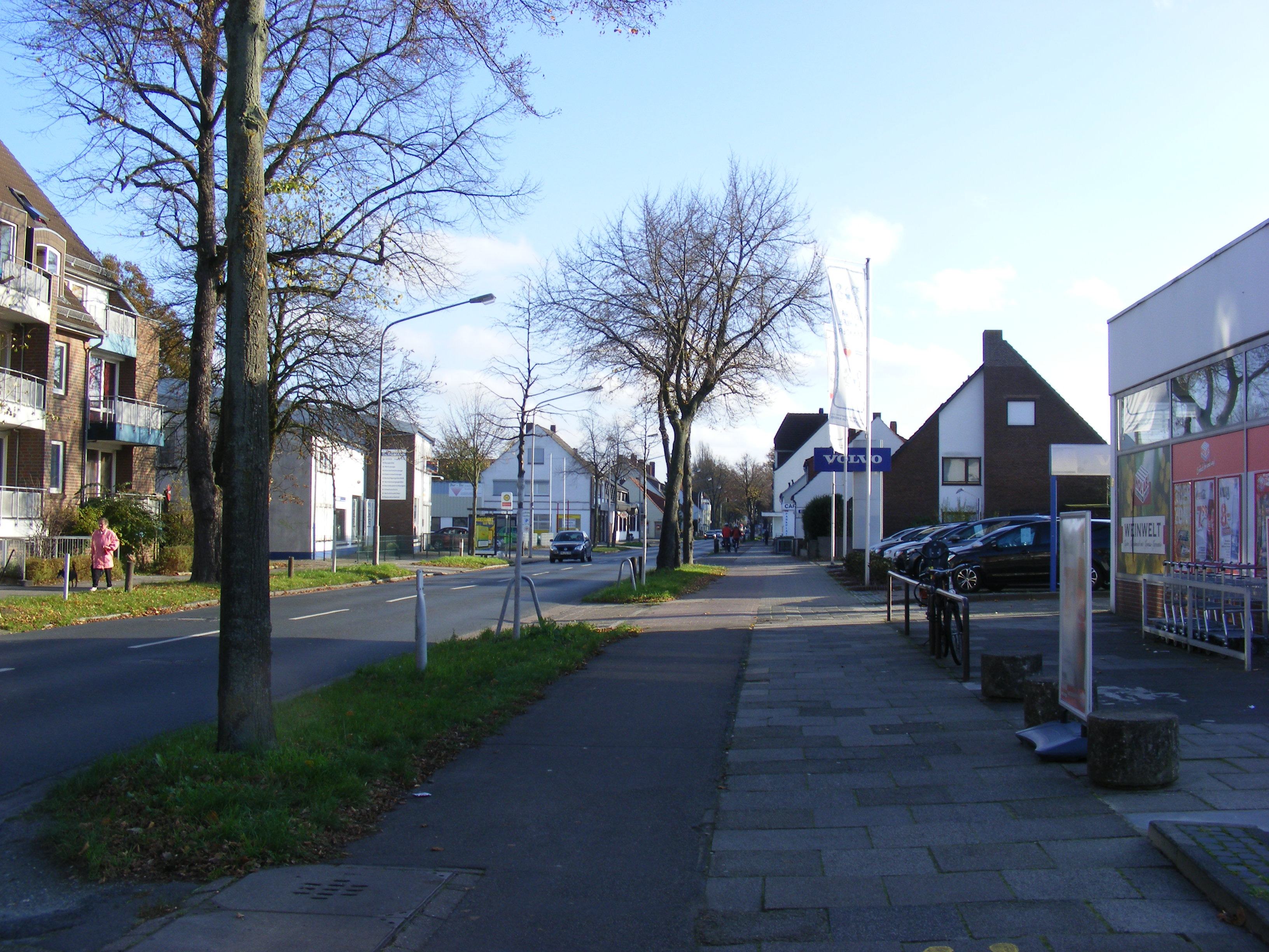 Bremen: Hemelinger Heerstr. between Marschstr. and Brinkmannstr., on the right cycletrack (bidirectional and compulsory, signs here out of sight)